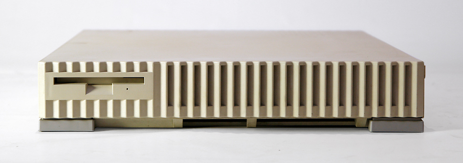 Side view of a Sun SparcStation 10